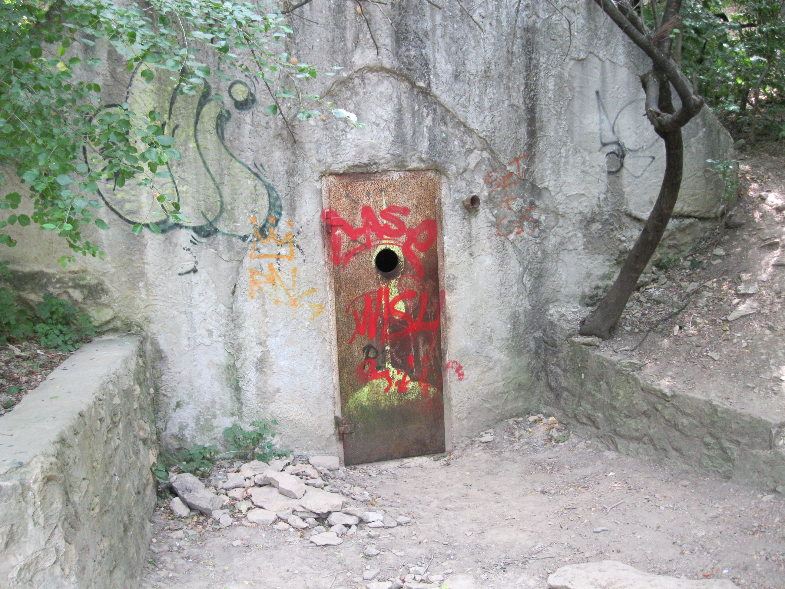 Entrance of the Mátyás-hegy Cave